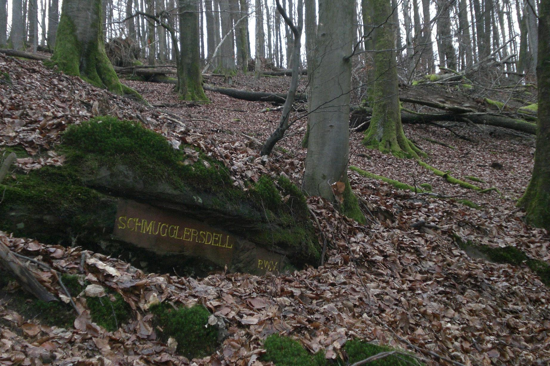 Ritterstein 177 - "Schmugglersdell"